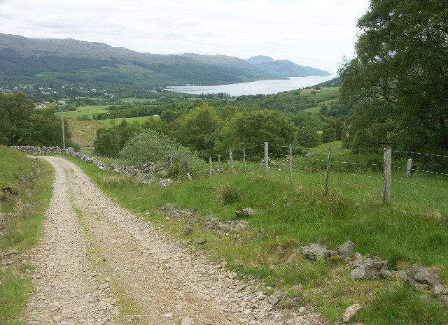 Fort Augustus and Loch Ness from General Wade's military road.